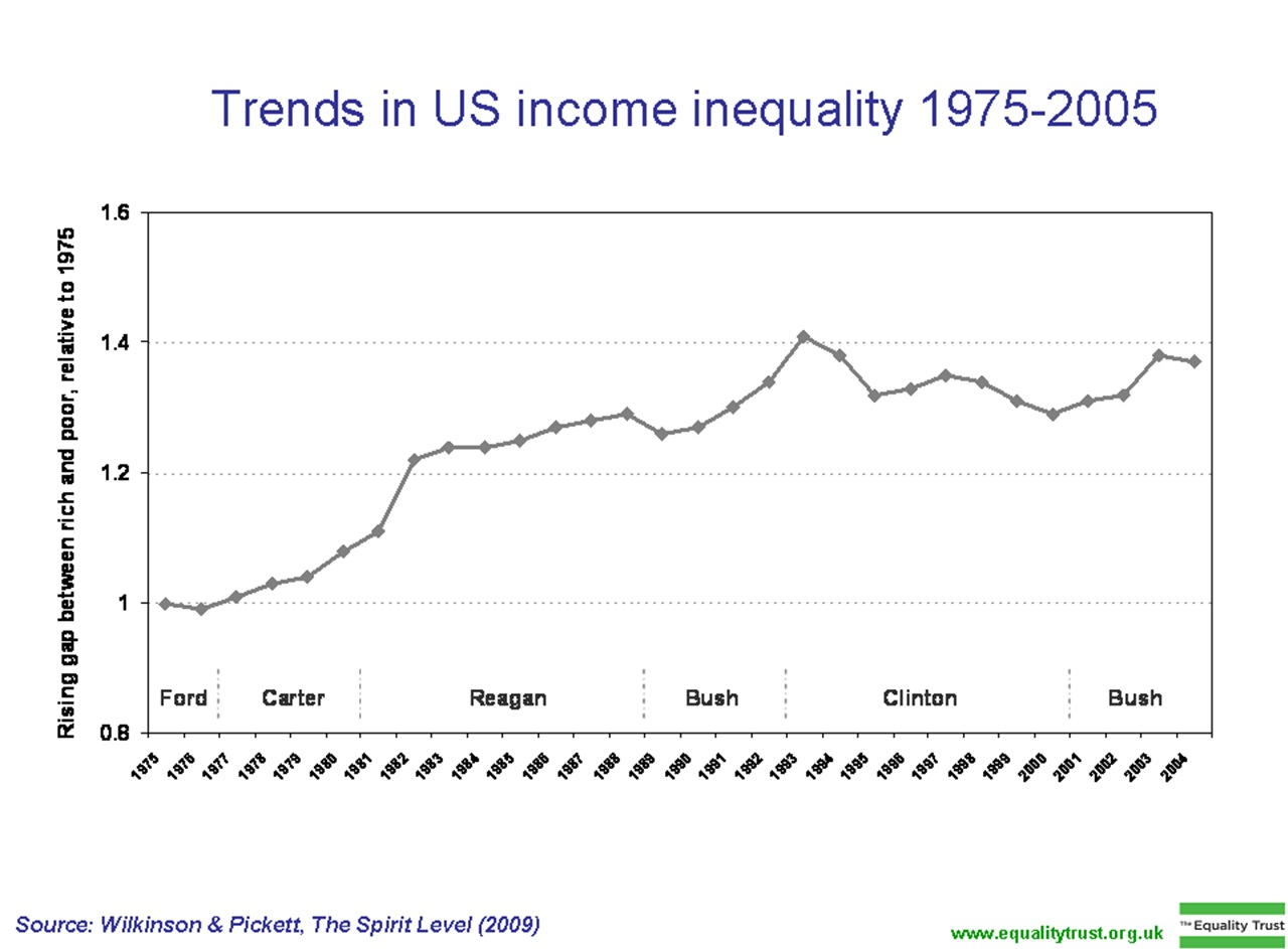 The Spirit Level: Why More Equal Societies Almost Always Do Better.